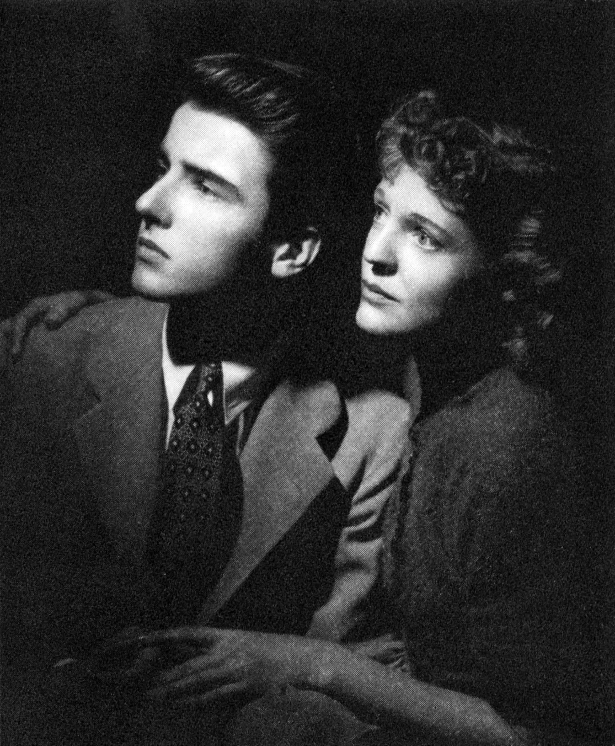 Promotional photograph for the Broadway production of Dame Nature, starring Montgomery Clift and Lois Hall